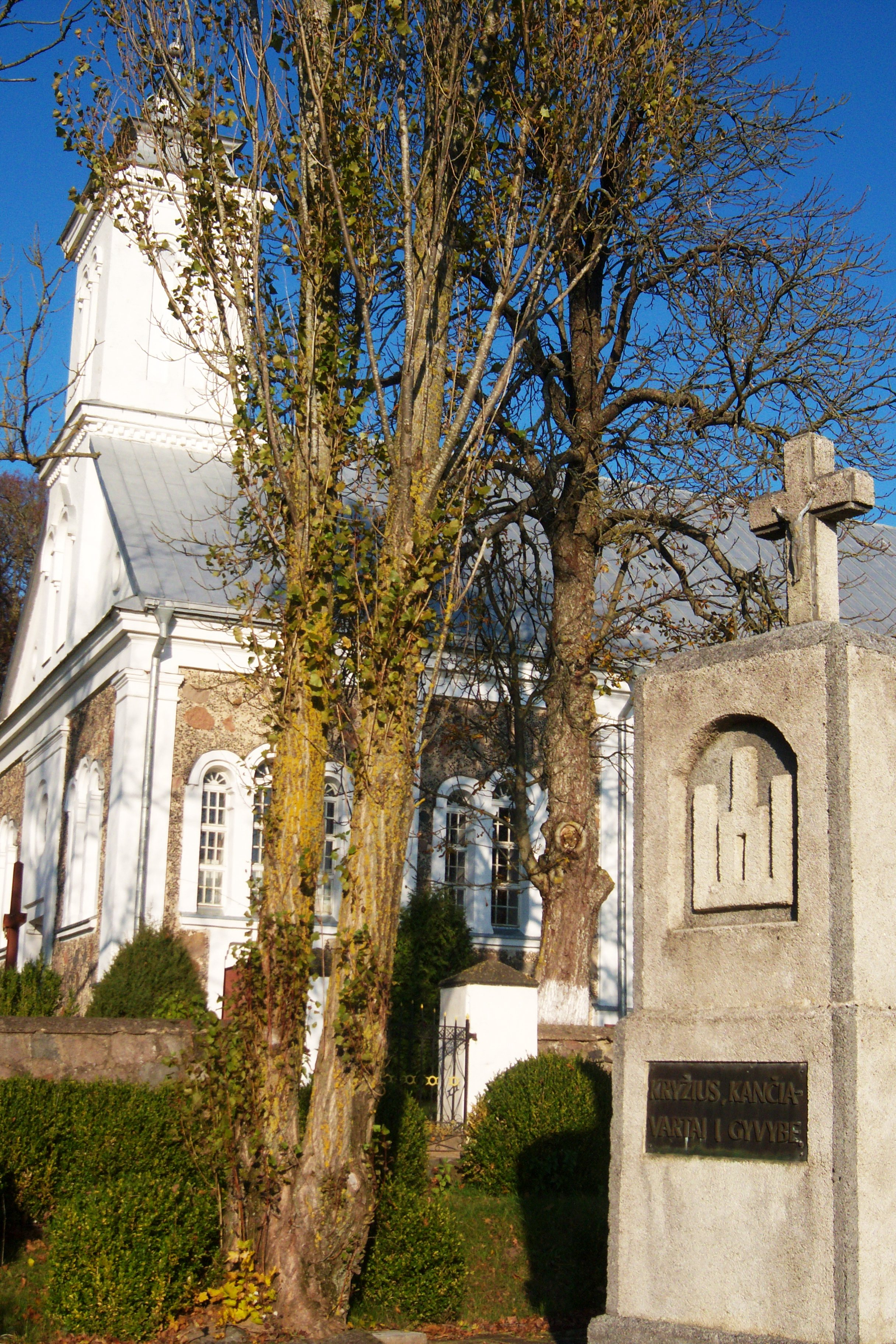 Aleksandrija Church and Independence 10-th anniversary monument (built 1928), Skuodas District. Lithuania